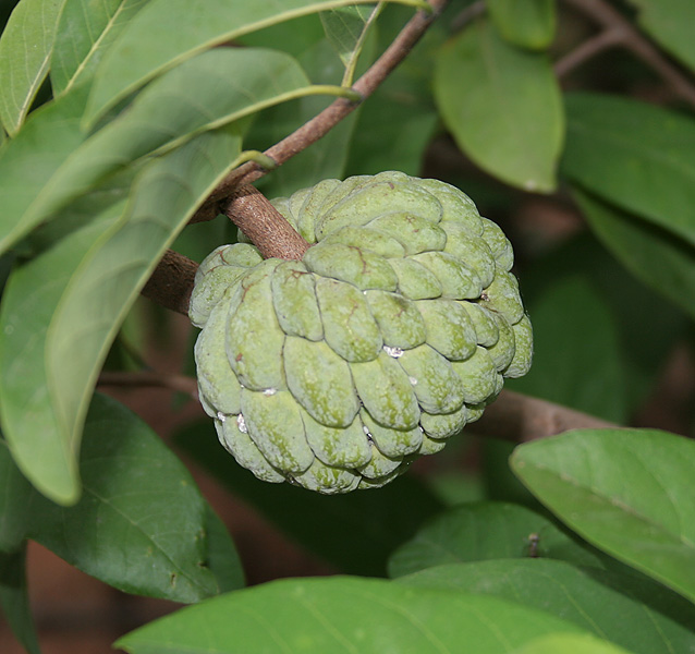 Custard-apple, sugar-apple, sweetsop, sitaphal or Sita's fruit, shareefah, aataa or Rahmapfel Annona squamosa in Hyderabad , India.